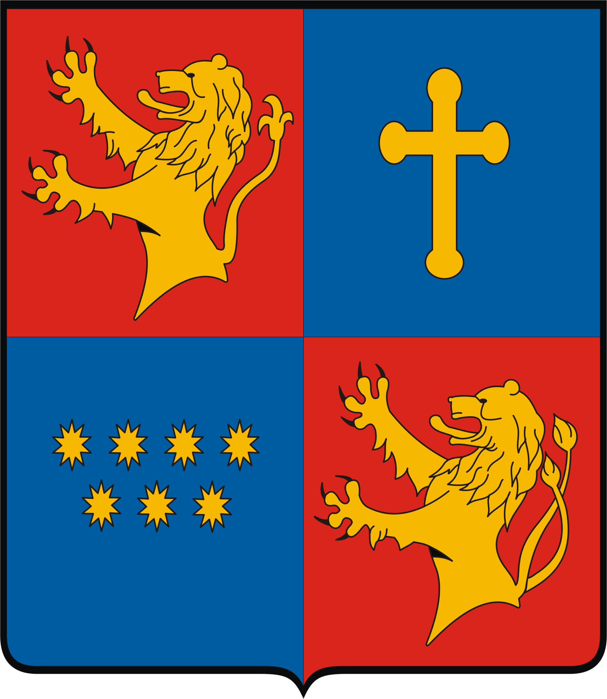 Coat of arms of Kelebia, Hungary